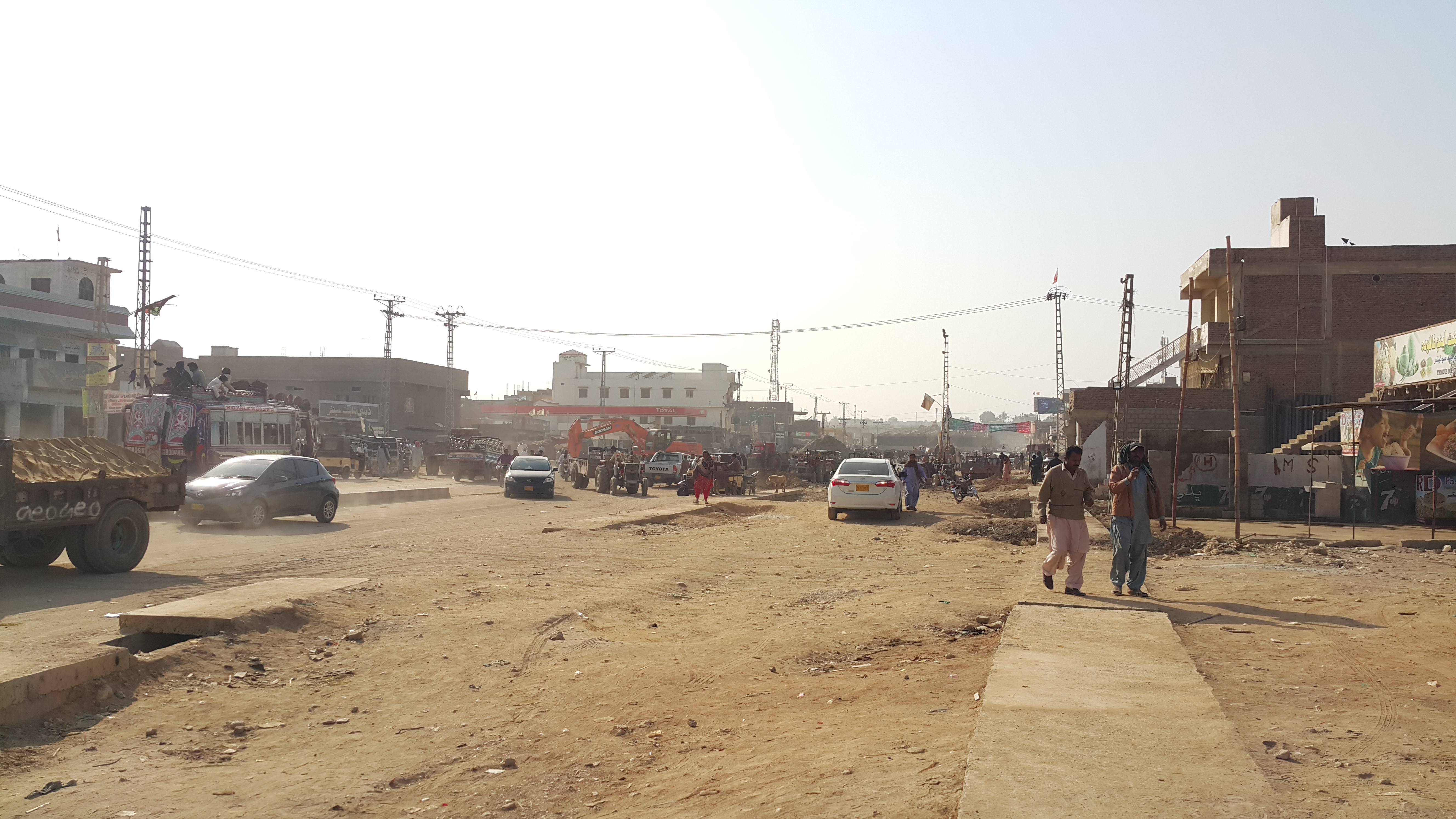 A picture of Phatak of Jamshoro City. The Bridge under construction can be seen